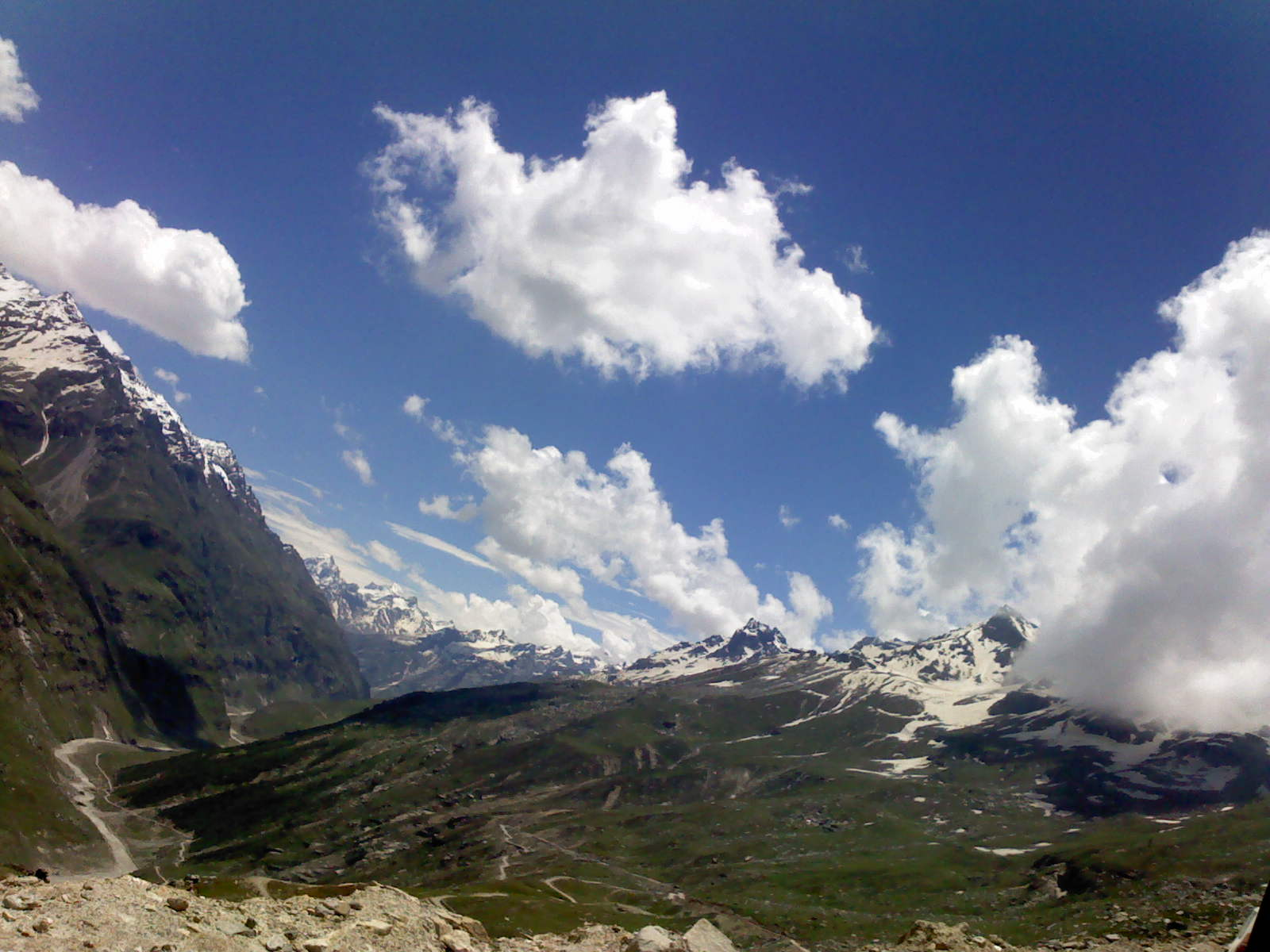 Rohtang pass view